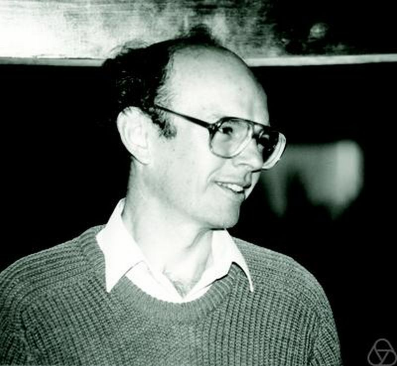 Neil Sloane, Oberwolfach 1987